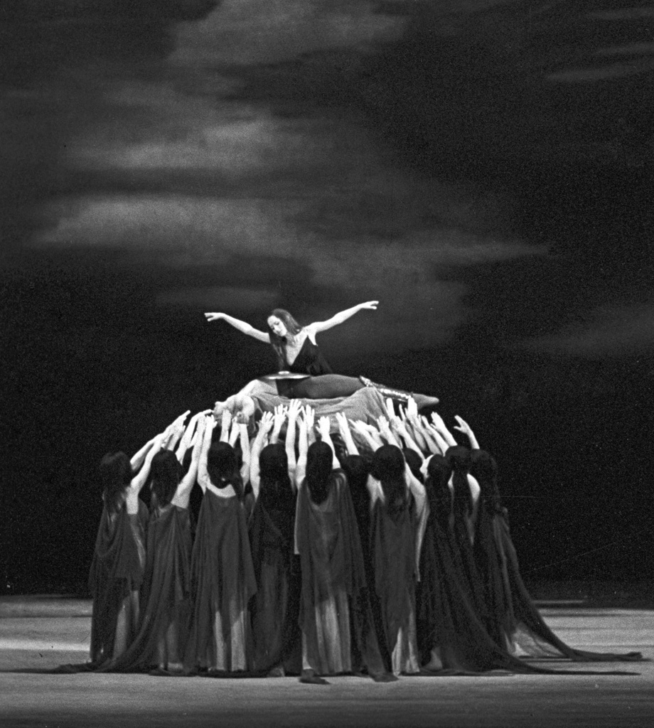 “Final scene from Aram Khachaturyan's ballet Spartacus”. Ballet dancers in the final scene from Aram Khachaturyan's ballet Spartacus choreographed by Yury Grigorovich and staged at the State Academic Bolshoi Theater of the USSR.